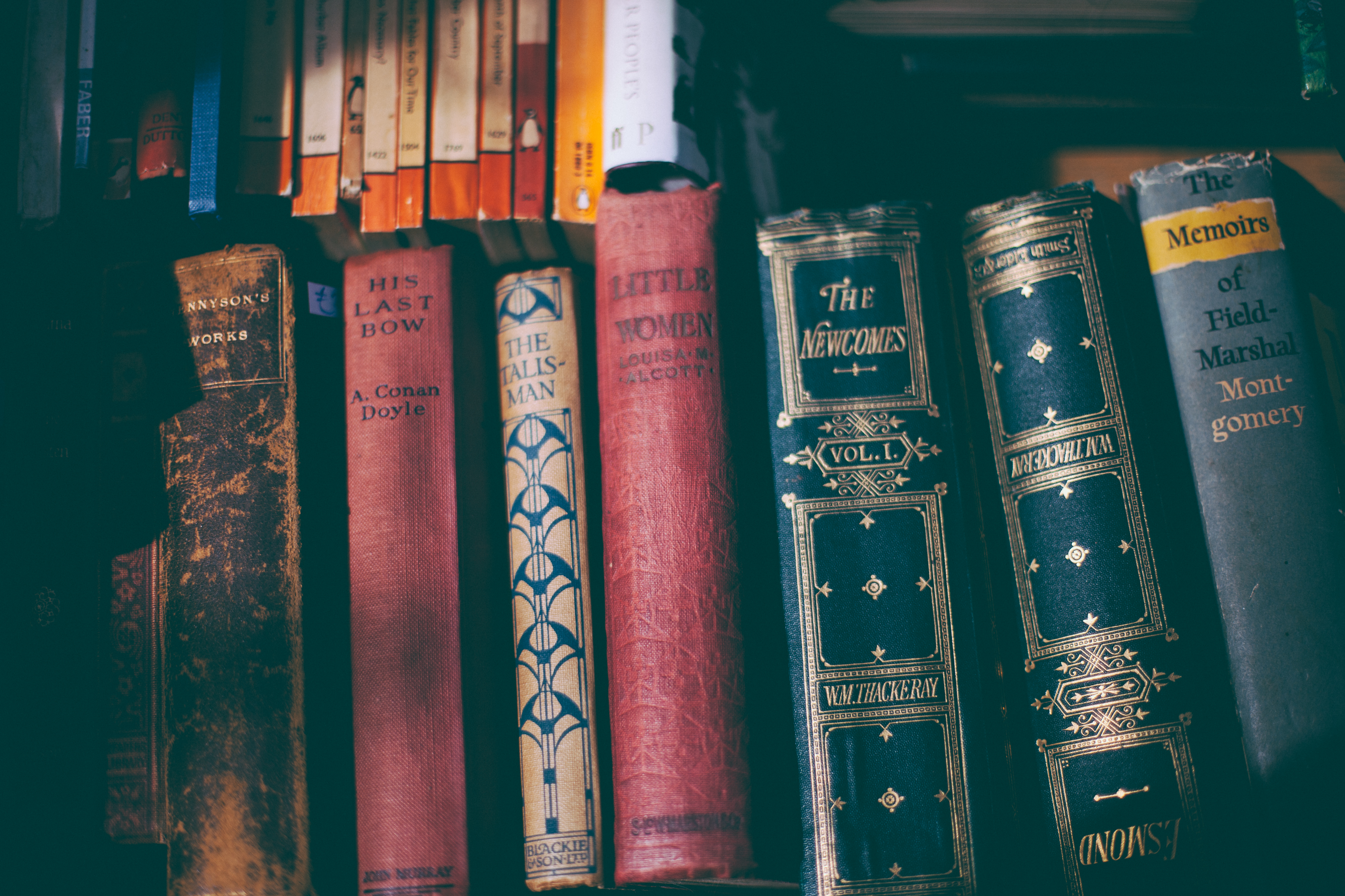 Brighton, United Kingdom